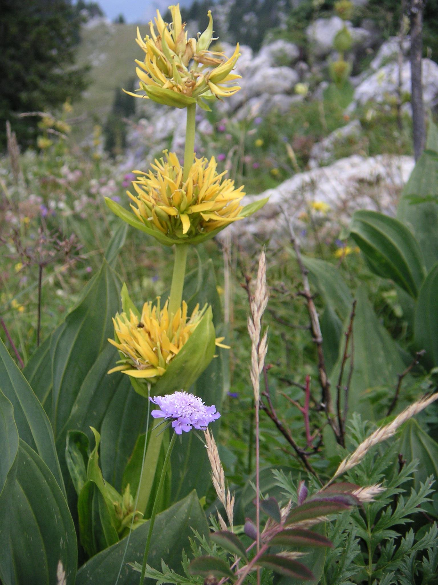 Gentiana lutea (from the mountain Charmant Som - Chartreuse - France)